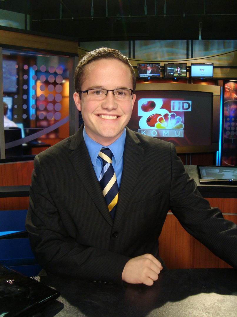 Alex Rozier during his time at KOMU-TV in December 2009.